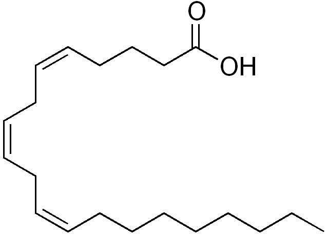 chemical structure of Mead acid